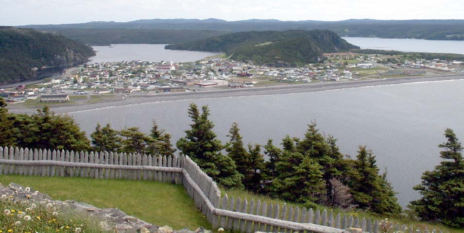 Placentia as viewed from the site of a former fortress, now a national historic site from a travel photo by user:carlb July 1, 2002